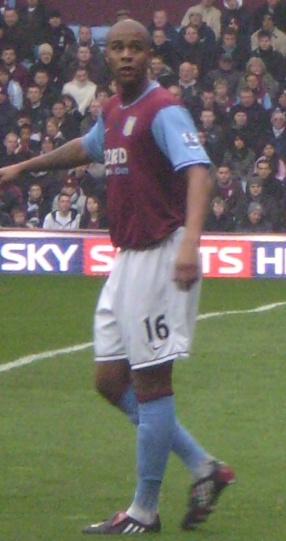 England football (soccer) defender Zat Knight of Aston Villa F.C. during the Premier League match against Birmingham City F.C.